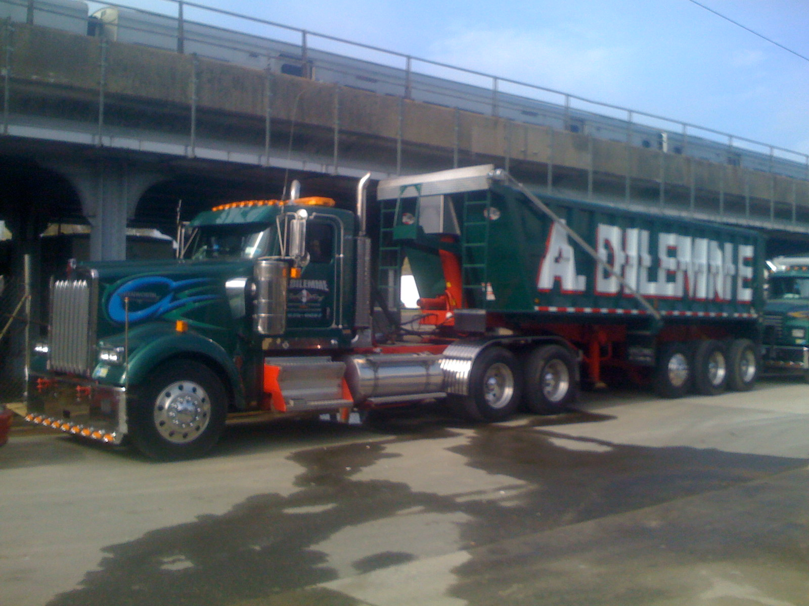 Dump trailer